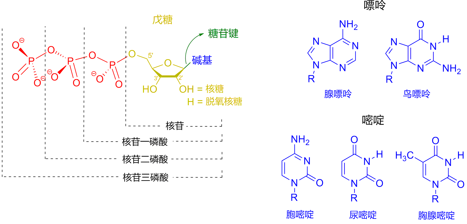 nucleotides (in Chinese)